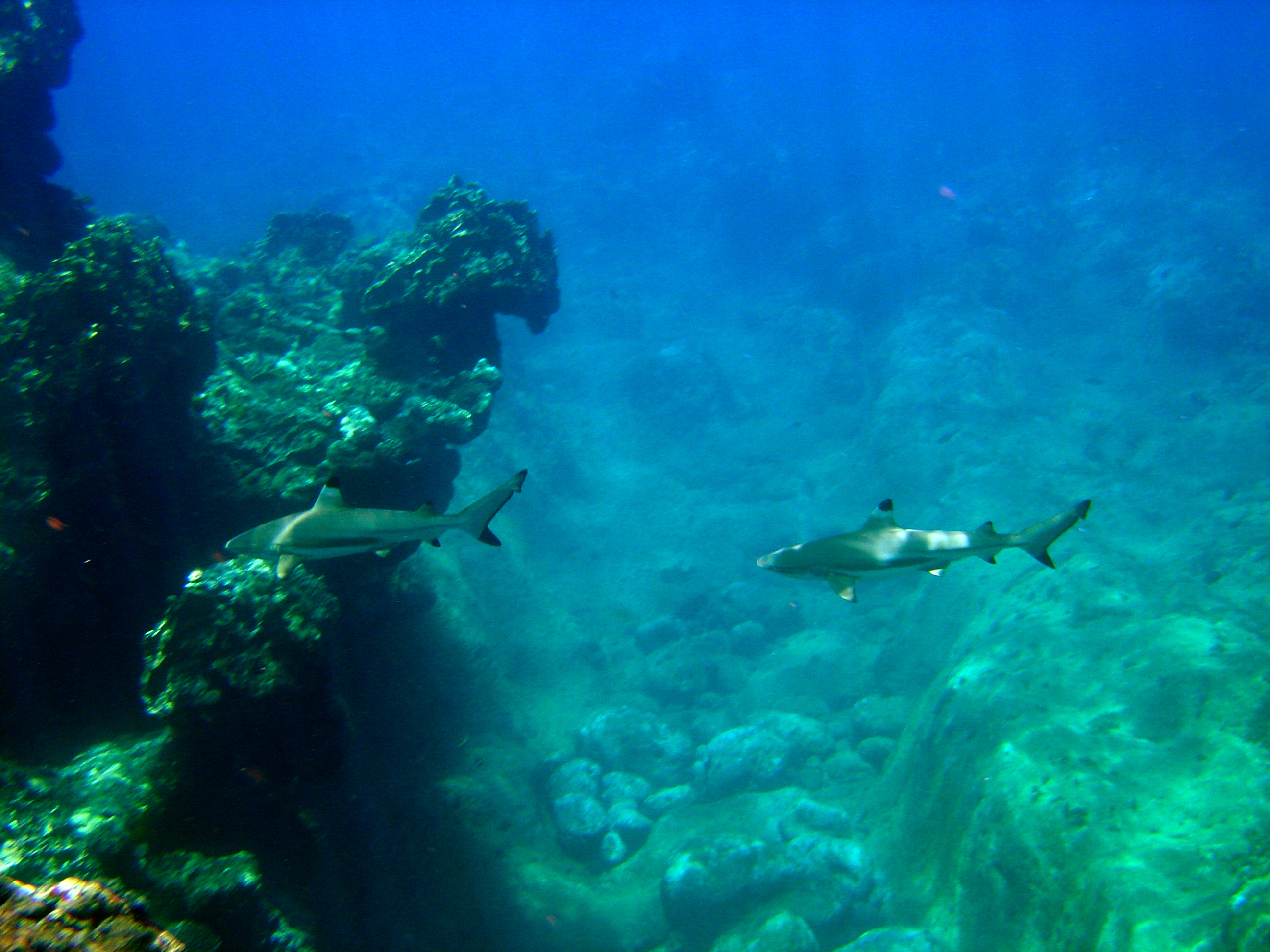 Blacktip reef shark (Carcharhinus melanopterus) off Guam.